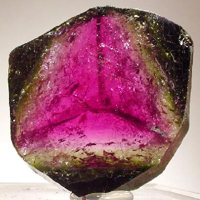 Liddicoatite Locality: Anjanabonoina pegmatites, Mount Ikaka, Ambohimanambola Commune, Betafo District, Vakinankaratra Region, Antananarivo Province, Madagascar (Locality at ) A CLASSIC and BEAUTIFUL polished liddicoatite tourmaline slice from Madagascar of a green outer rim and "Mercedes Benz star" triangular, cranberry-red core. Very good quality! 2.2 x 2.0 x 0.4 cm